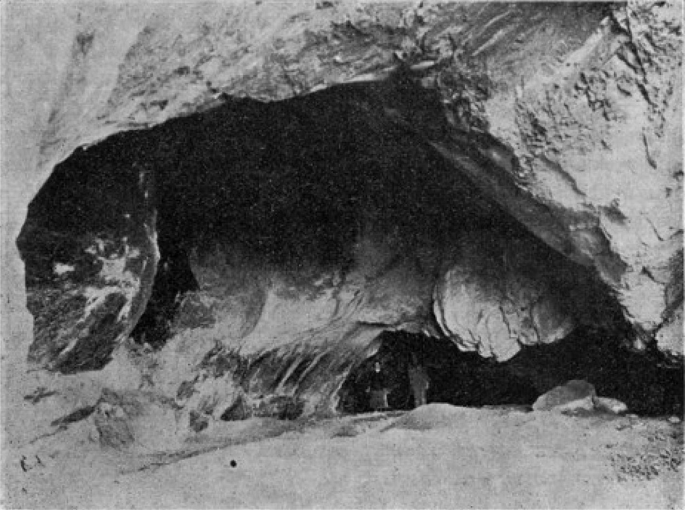 Inside of Peskő Cave (Felsőtárkány, Hungary).